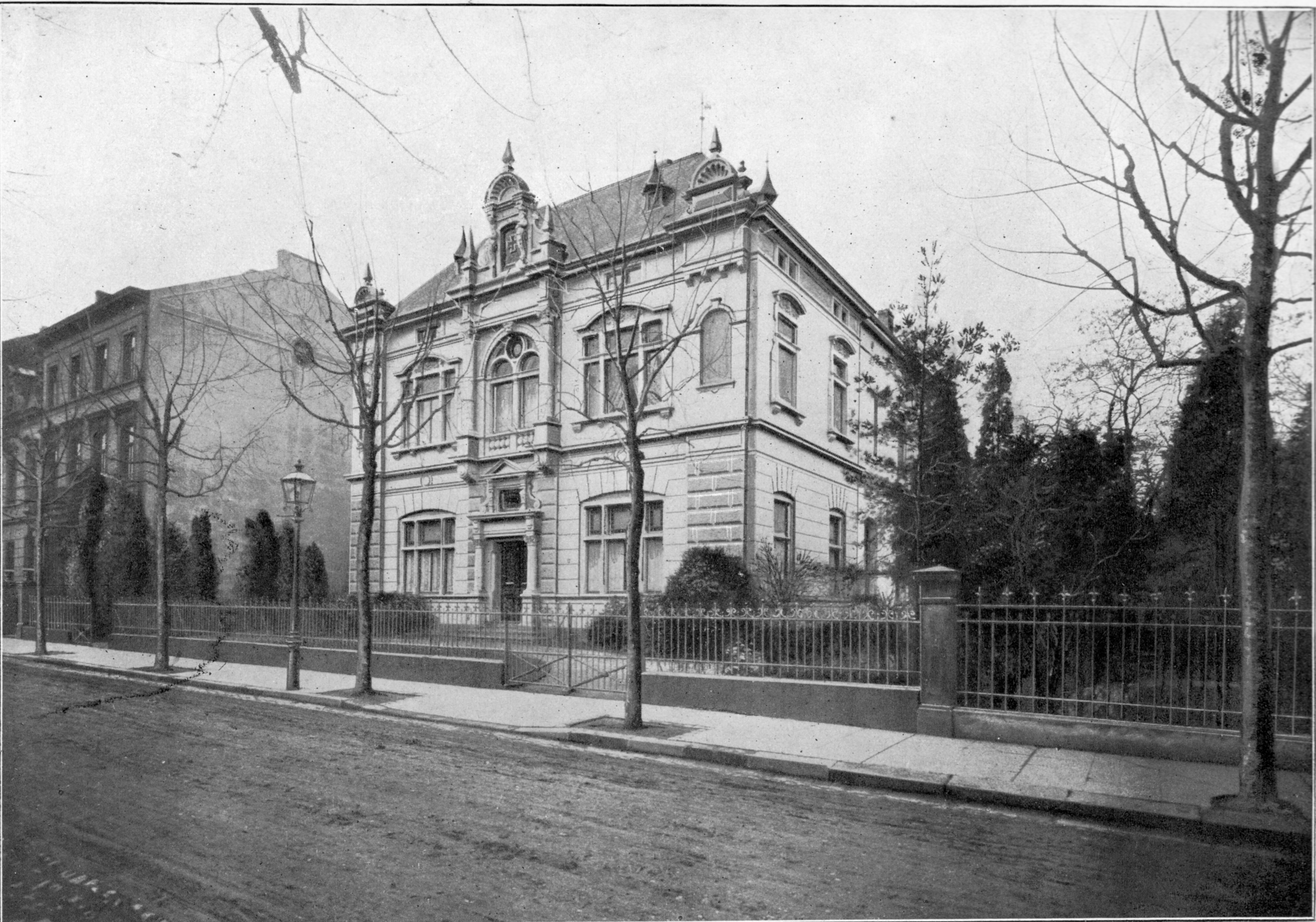 Lodge building of Friedrich Wilhelm zum eisernen Kreuz in Bonn, Schumannstr. 8